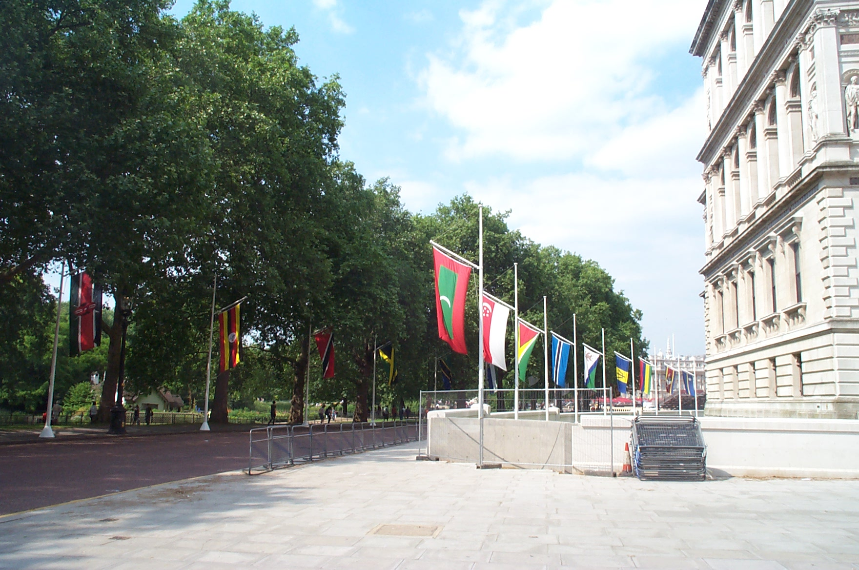 Flags of the members of the Commonwealth of Nations on Horse Guards Road, London.